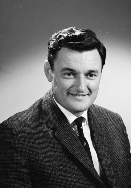 A 1967 black and white portrait of John McLeay Jr., MHR for Boothby